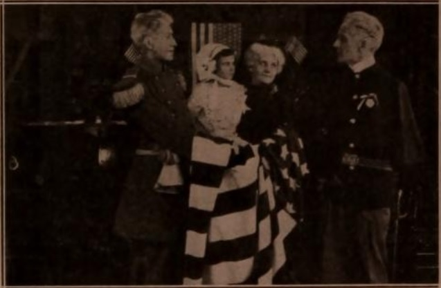 A Thanhouser advertisement in the The Moving Picture World from July 2, 1910.